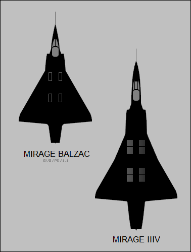 Plan-view silhouettes of the Dassault Balzac, and Dassault Mirage IIIV